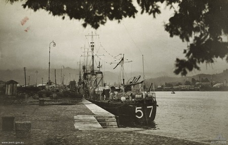 BATUMI, RUSSIA. STERN VIEW OF THE TORPEDO BOAT DESTROYER HMAS TORRENS (57) ALONGSIDE A WHARF. NOTE THE DEPTH CHARGES ON THE STERN. (ORIGINAL PRINT HOUSED IN AWM ARCHIVE STORE).